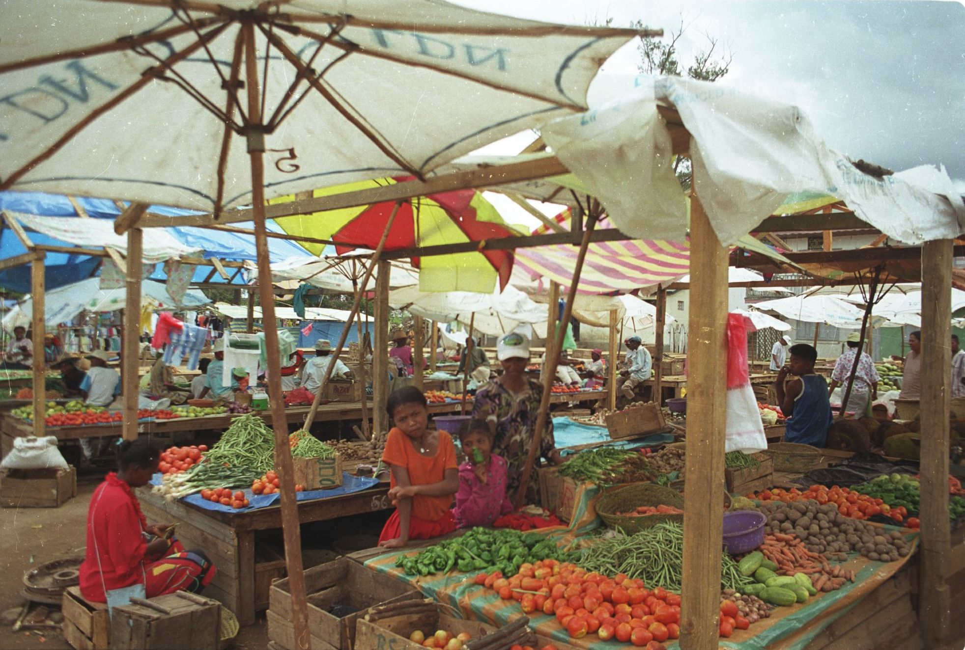 Marketplace in Moramanga.